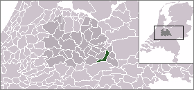 Location of Dutch former municipality Amerongen in 2005. Made by me (Mtcv), PD.